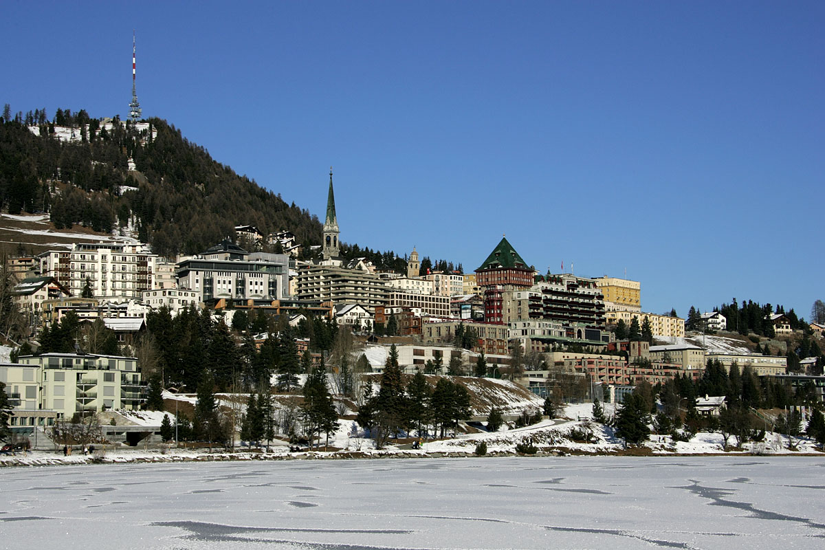 Badrutt's Palace Hotel in the center of St. Moritz, frozen Lake St. Moritz in the foreground. Rumantsch: Palace Hotel, San Murezzan, ed il Lej da San Murezzan